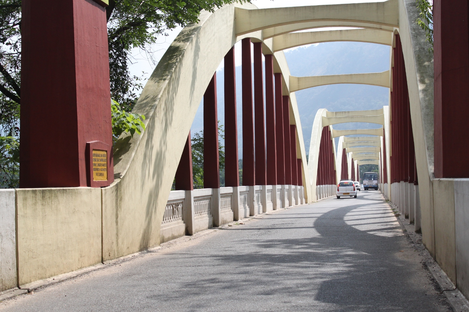 neriyamangalam bridge